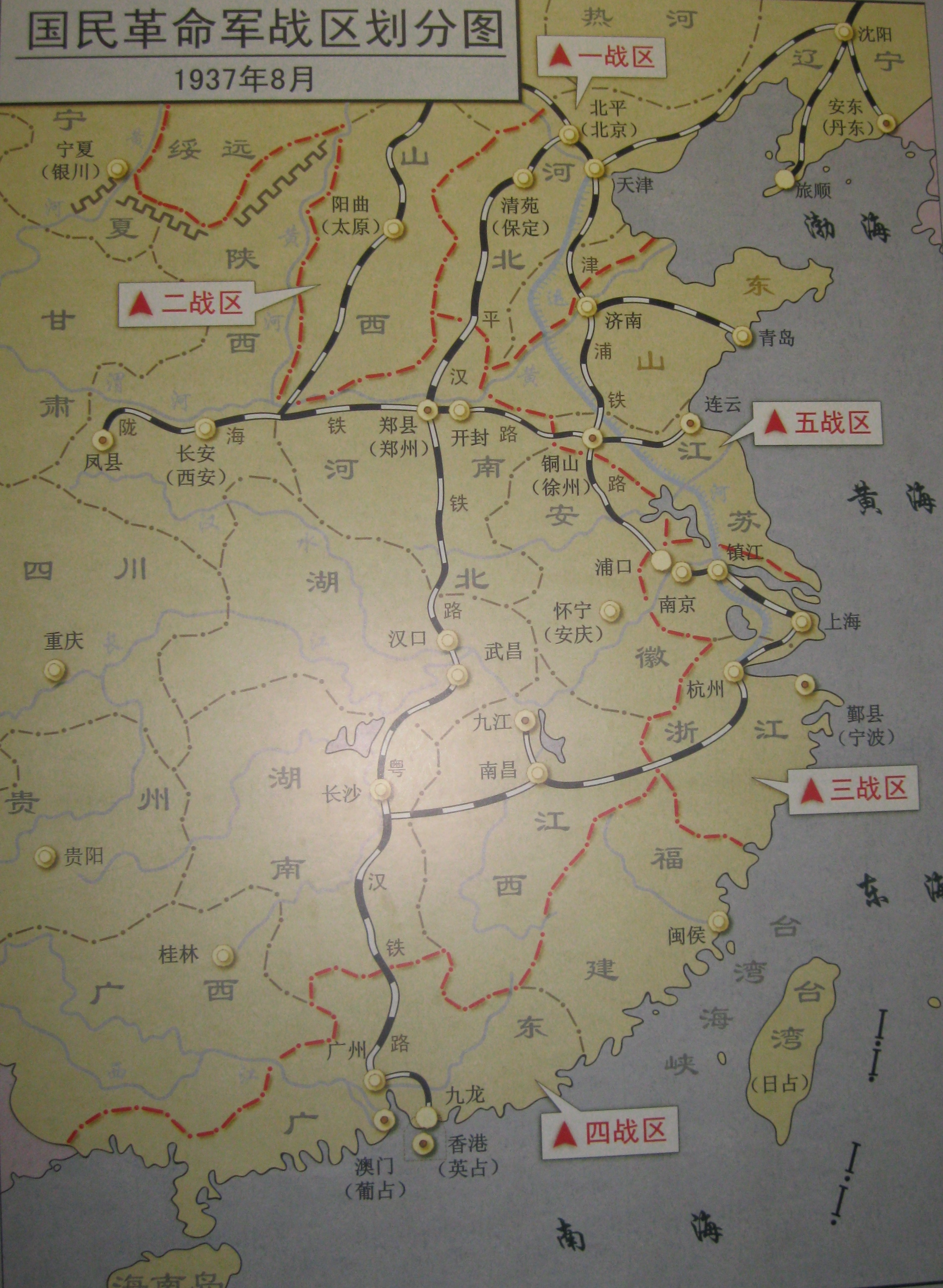 NRA Military Regions in August 1937. Picture from the Memorial Hall of the Chinese People's War of Resistance Against Japanese Aggression (Beijing, China)